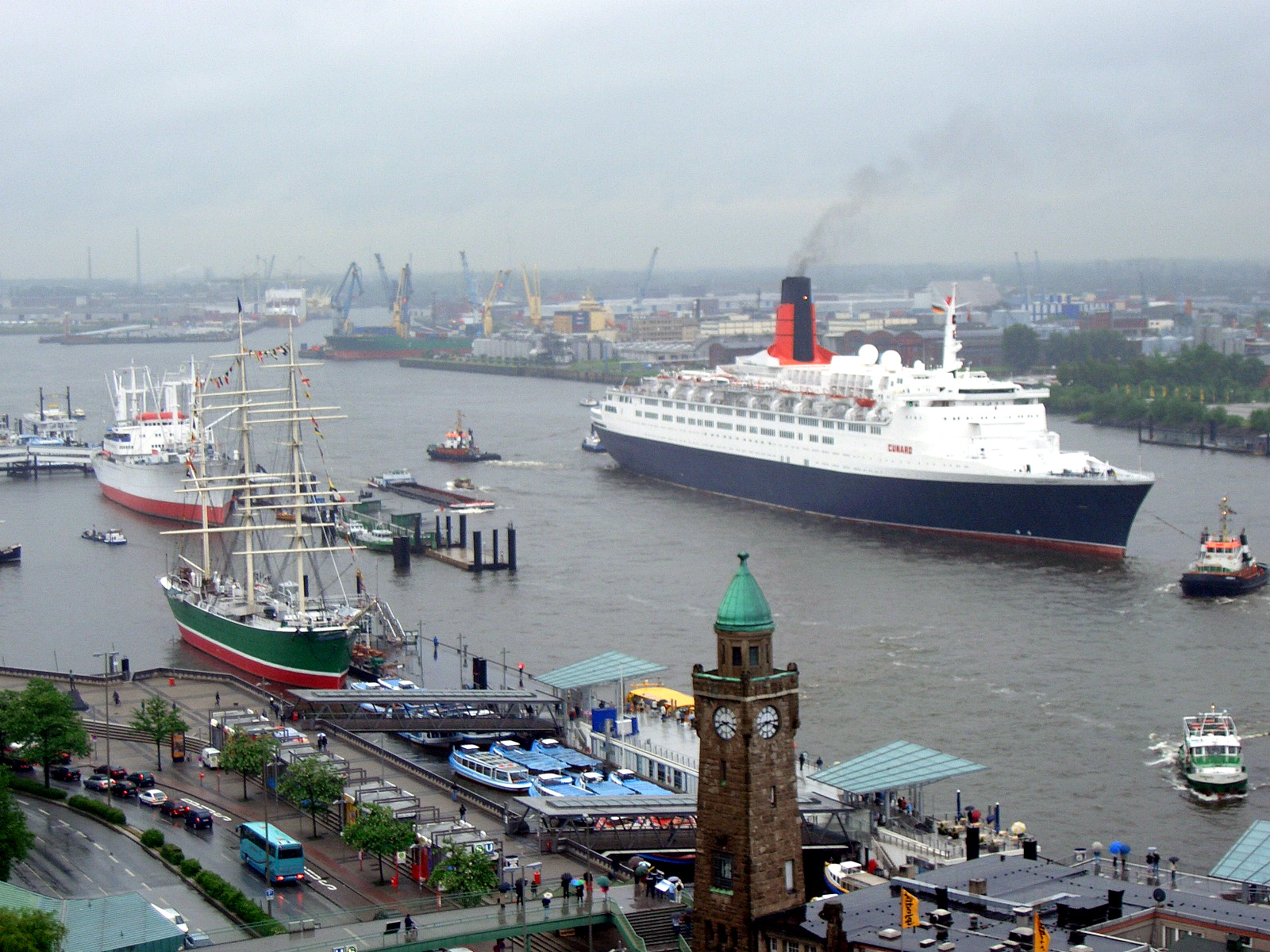 RMS Queen Elizabeth 2 in Hamburg, Germany.